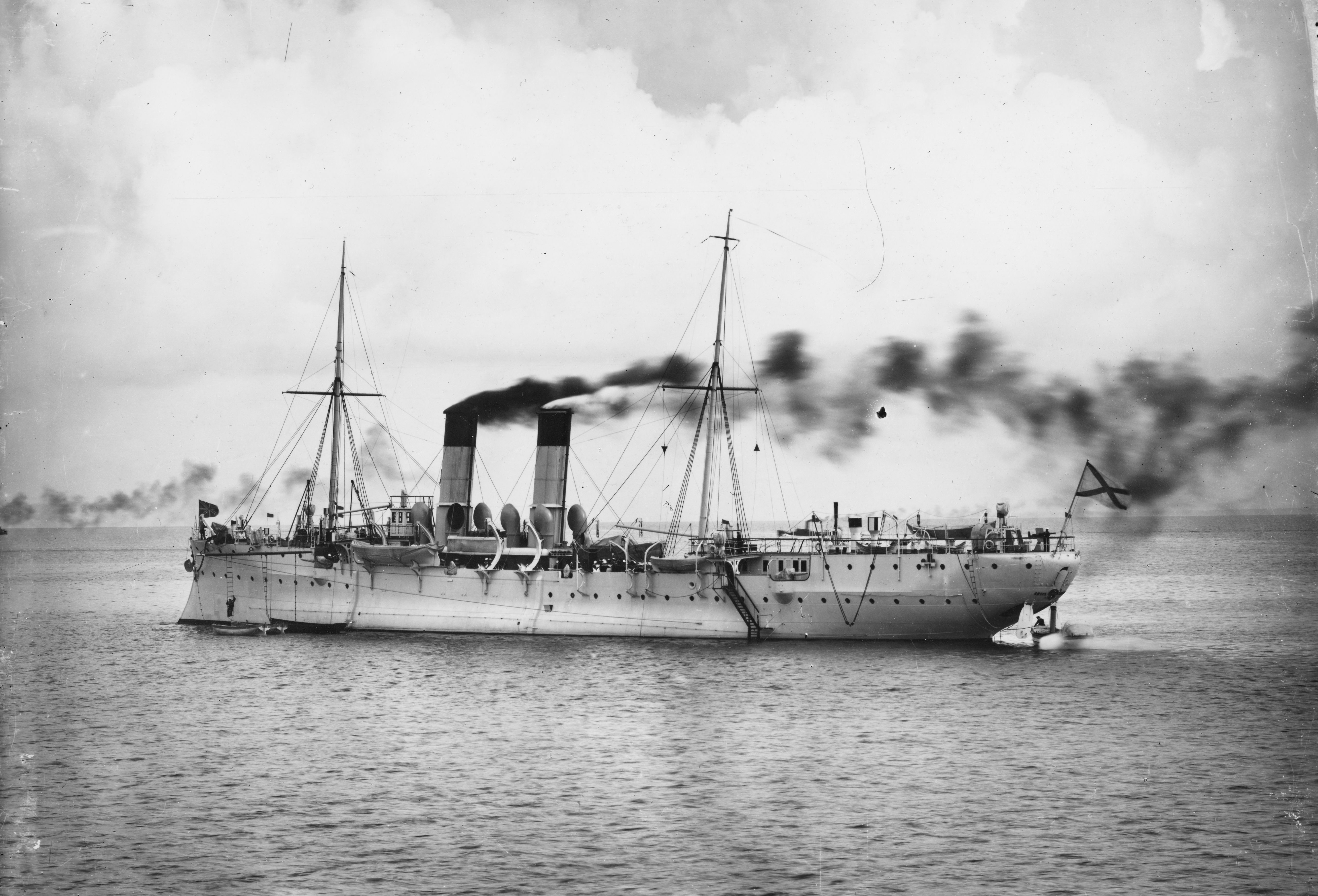 Imperial Russian minelaiyer Amur.